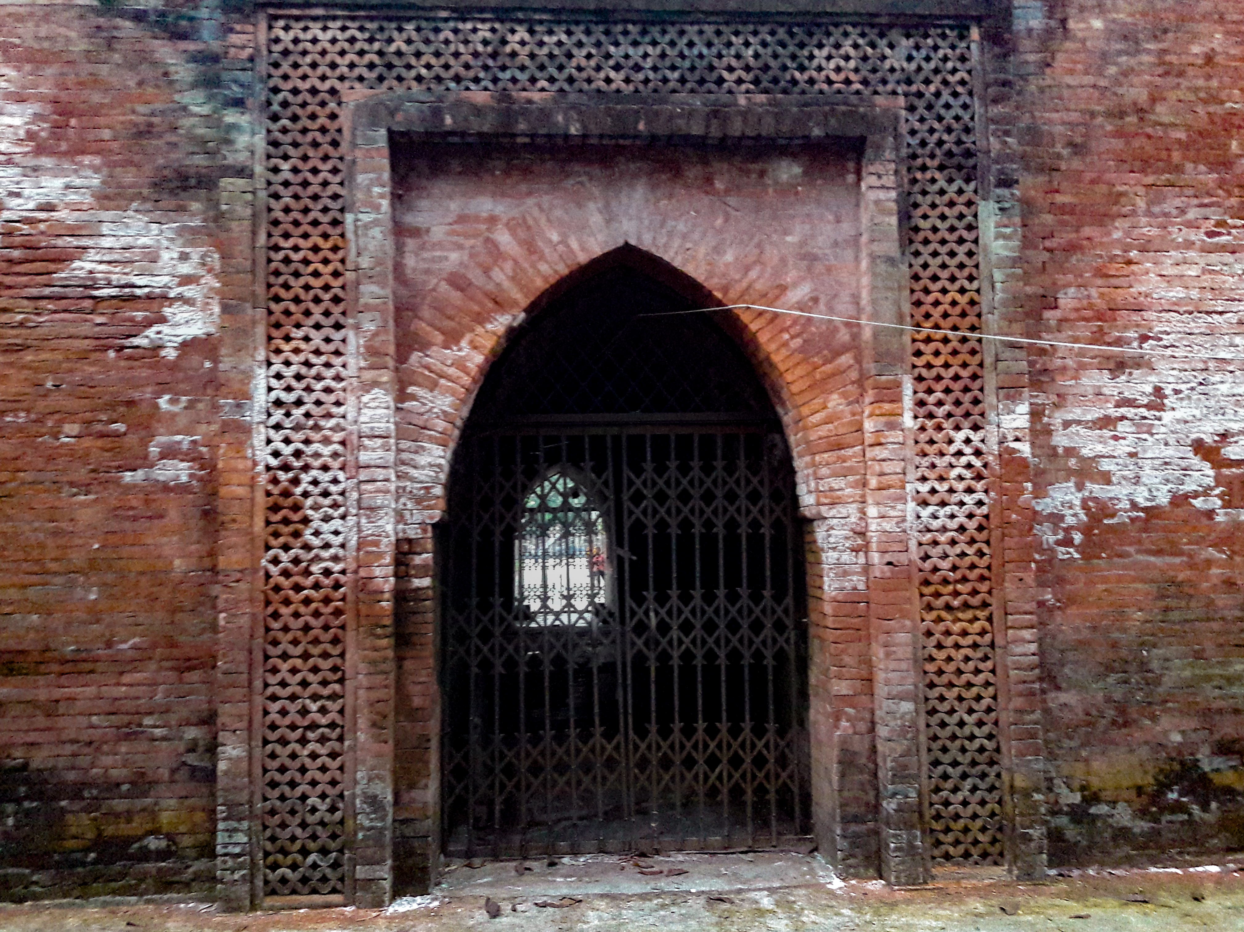 Bibi Begni Mosque